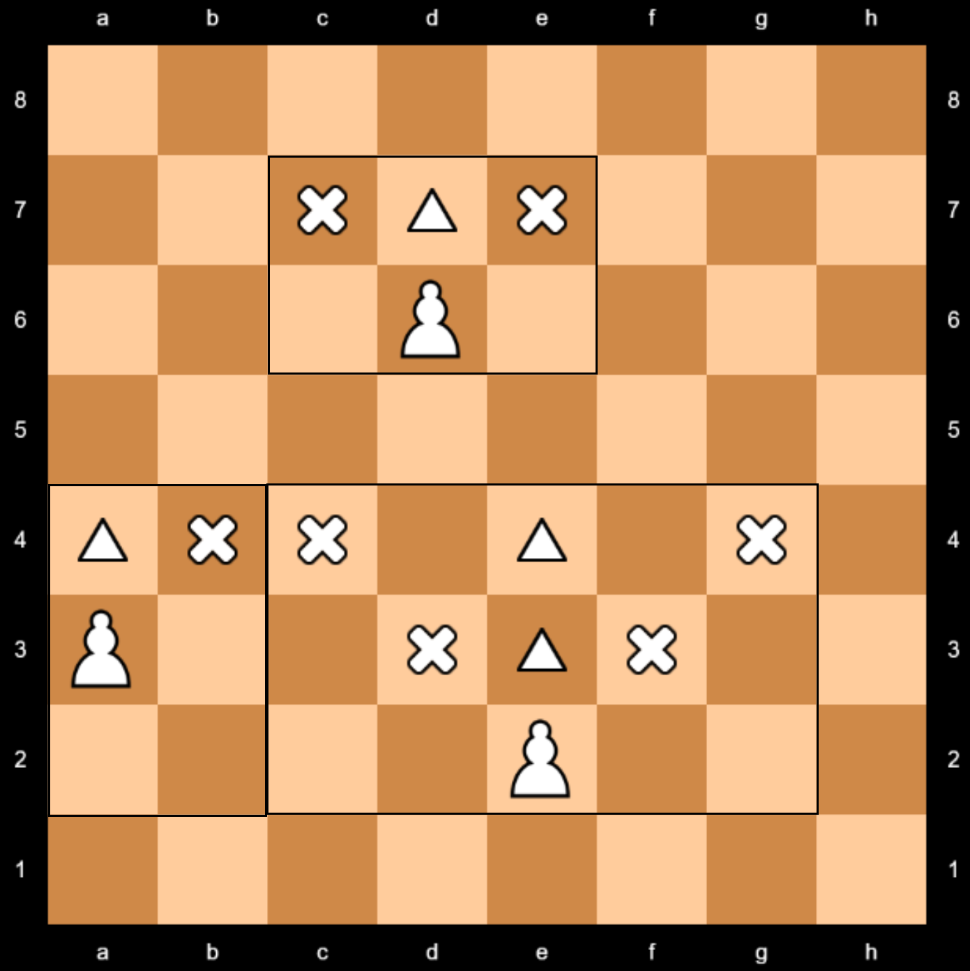 The Pawn is allowed to capture one or two squares diagonally forward from initial squares.